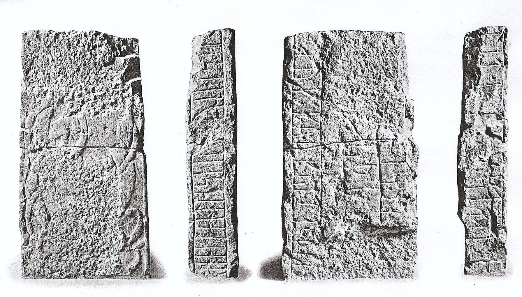 image of runestone Dr 6 in Schleswig Cathedral, Germany.